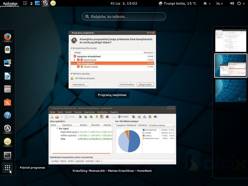 Screenshot of Baltix GNU/Linux 14.04 (based on Ubuntu Linux 14.04 ), running GNOME Shell 3.10 desktop environment Activities